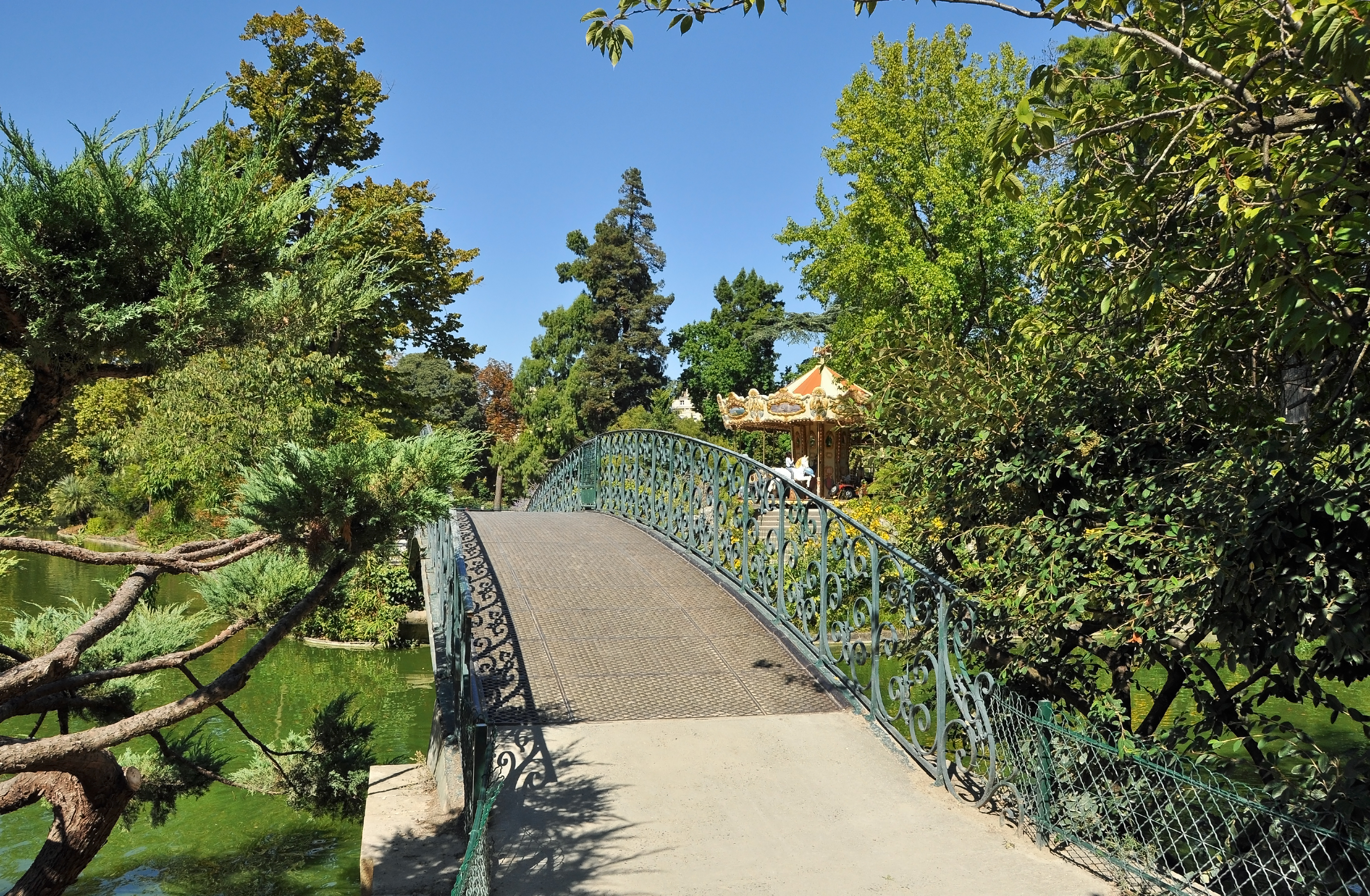 Bordeaux (France): the Jardin Public